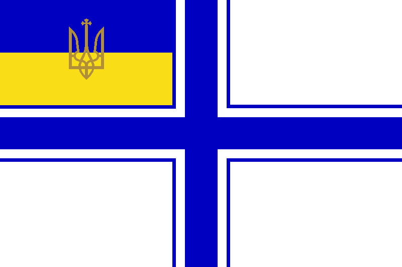 Naval Ensign of Ukraine which made from the Naval Ensign of Ukrainian State (from 18 July 1918), Ukrainian People's Republic (from December 1918) and it was for the first time hoisted in November 1992 on command ship U510 «Slavutych». Reference: флаги флота Украины.